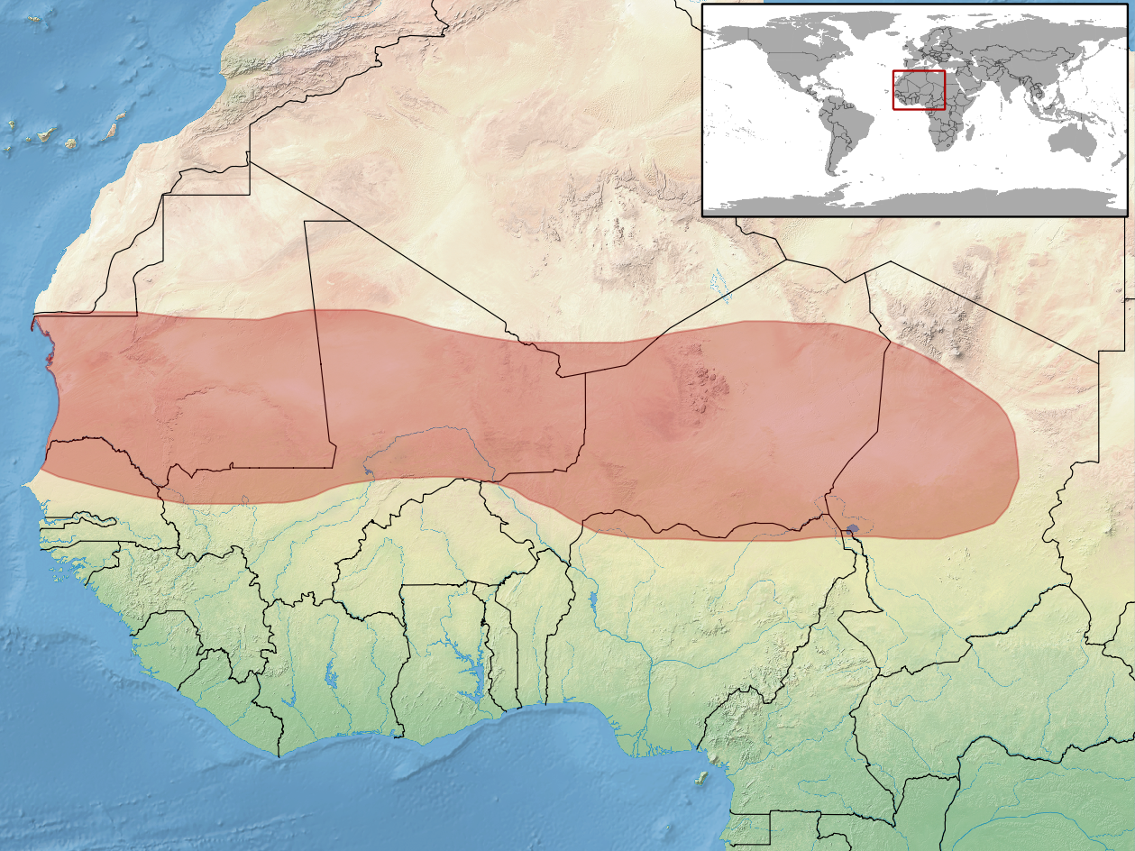 geographic distribution of Agama boueti (Native: Mali; Mauritania; Niger; Senegal)